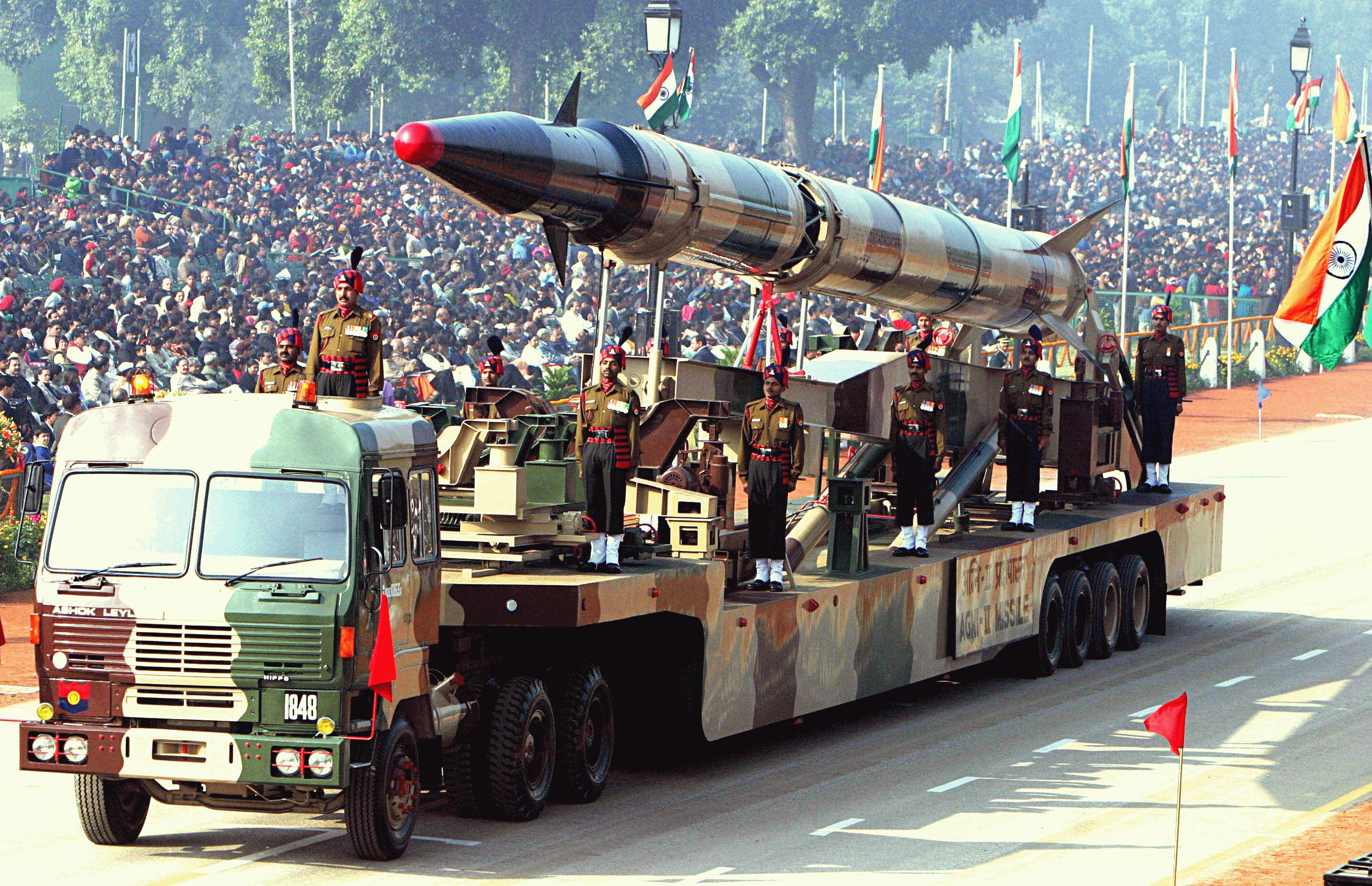 An Indian Agni-II intermediate range ballistic missile on a road-mobile launcher, displayed at the Republic Day Parade on New Delhi's Rajpath, January 26, 2004.